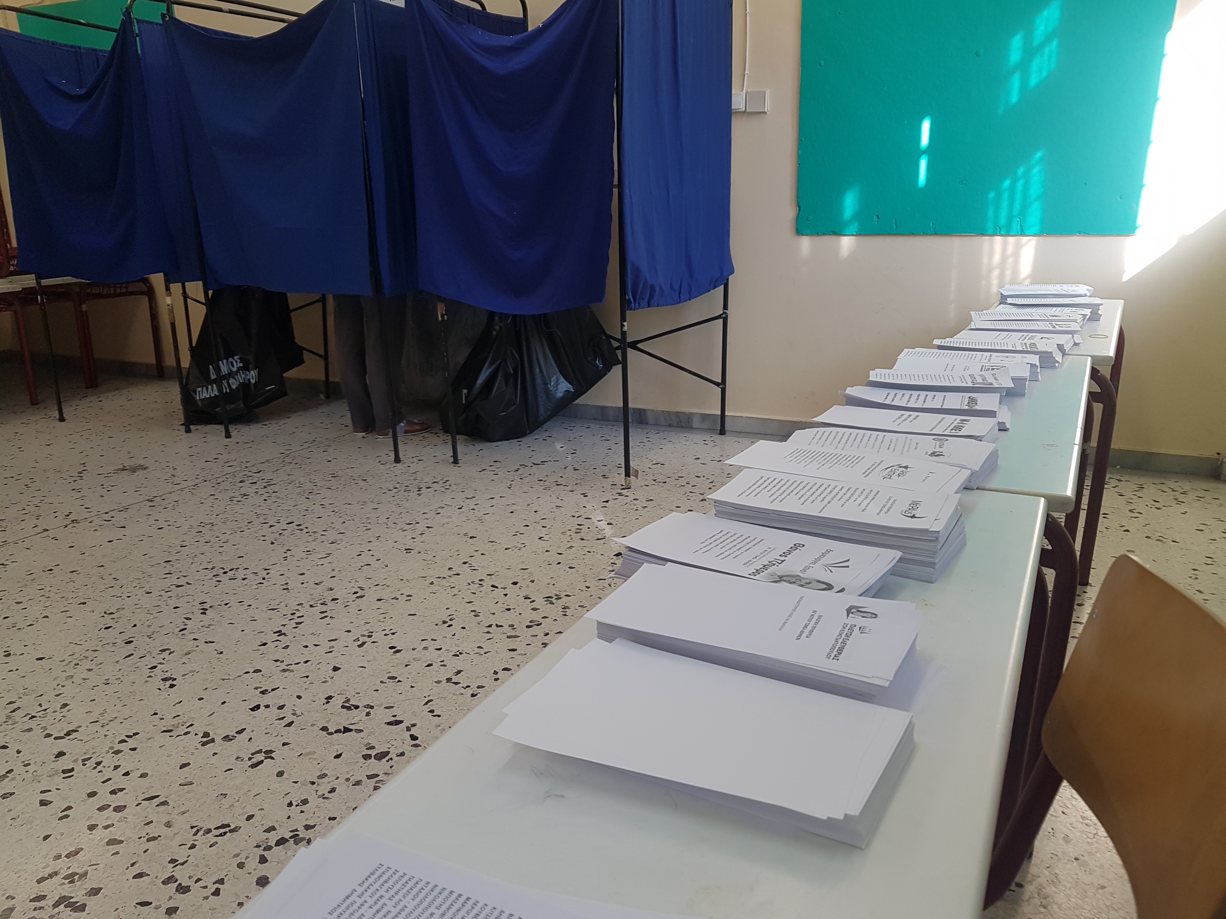 Ballots and election booths for the 7 July 2019 legislative elections in Greece